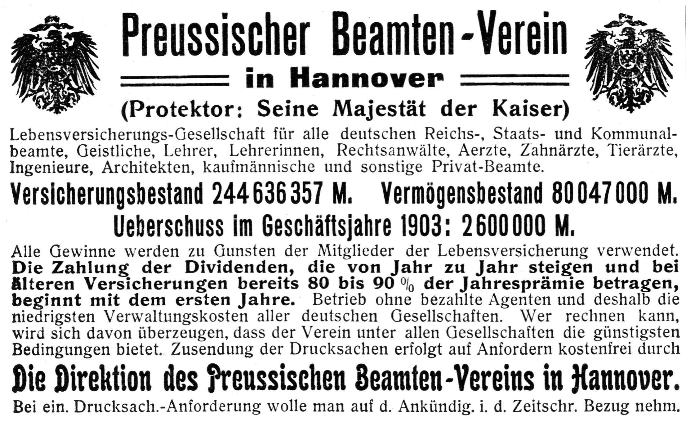 Advertisement of an insurance